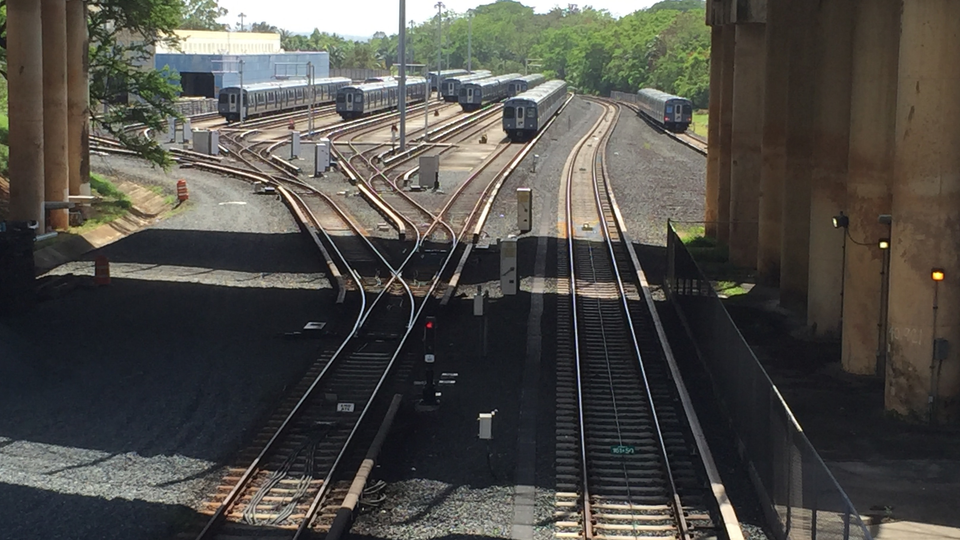 Tren Urbano Yards